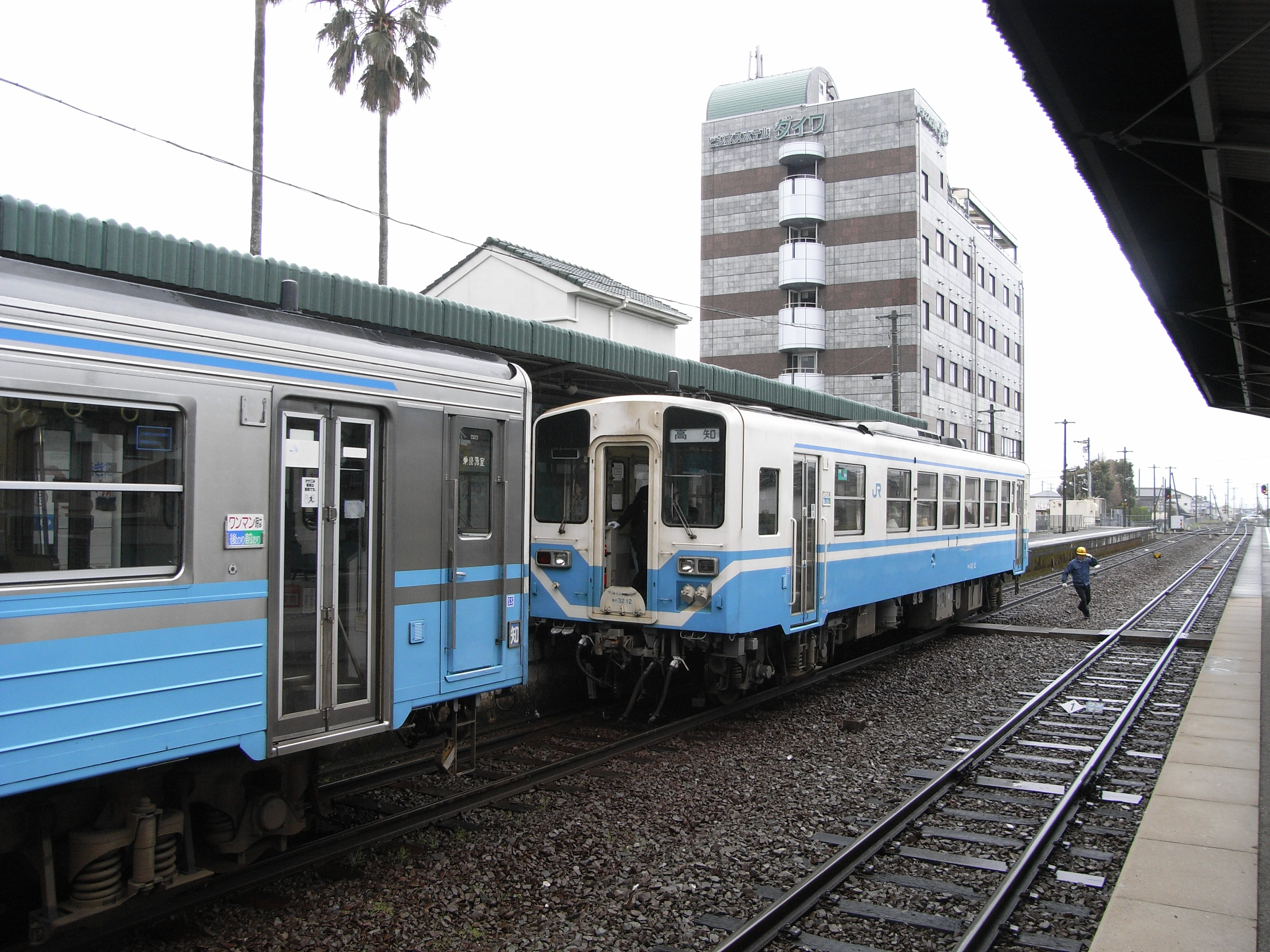 Tosa-Yamada Station in Kami, Kōchi, Japan.